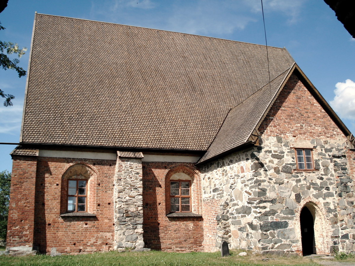 Church of the Holy Cross (Pyhän Ristin kirkko) in Hattula, Finland.